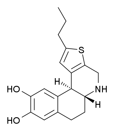 i drew this anyone can use it